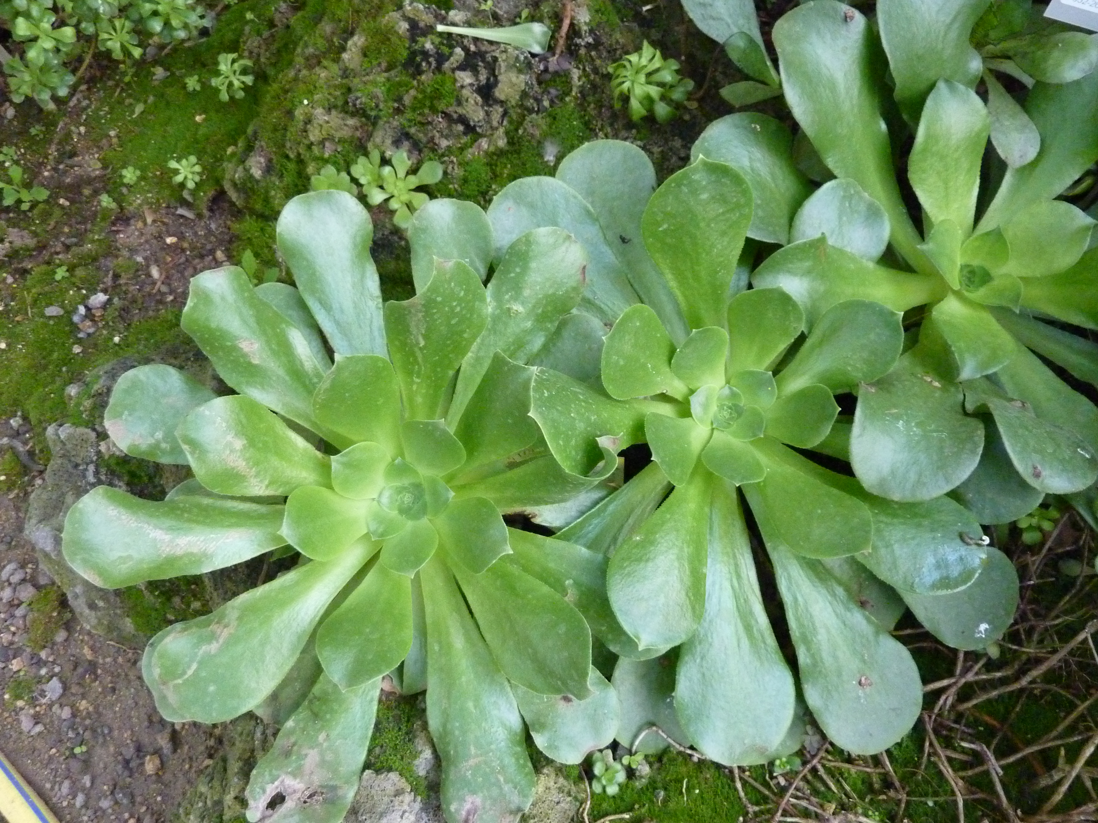 Aeonium glutinosum in the Botanical Garden, Berlin